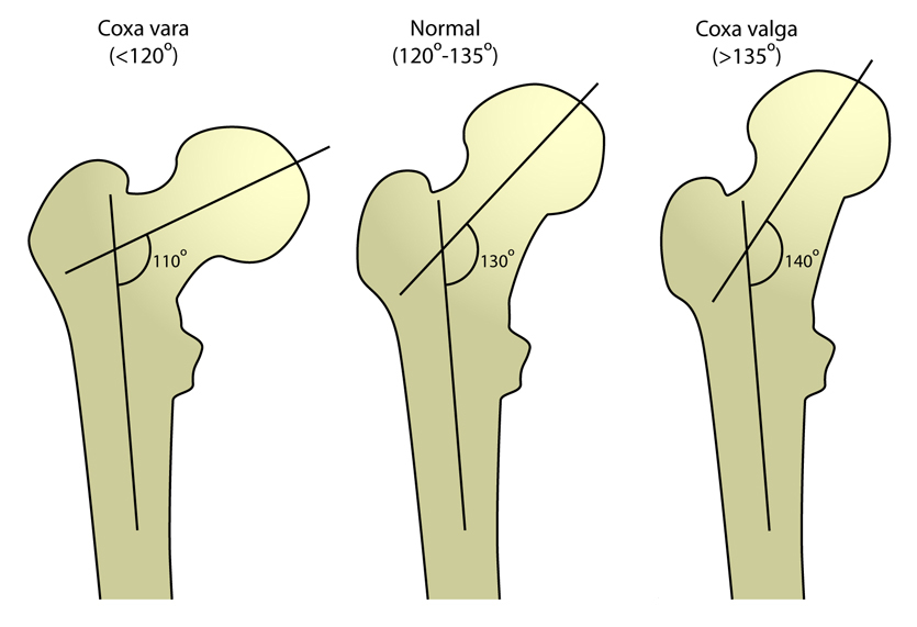 diagrams distinqusihing between a normal, a Coxa Vara and a Coxa Valga femur angles.